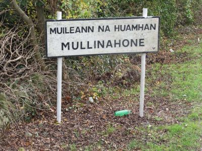 Sign for the village of Mullinahone (Irish: Muileann na hUamhan, meaning "mill on the river"). Photographer John Quirke Admin